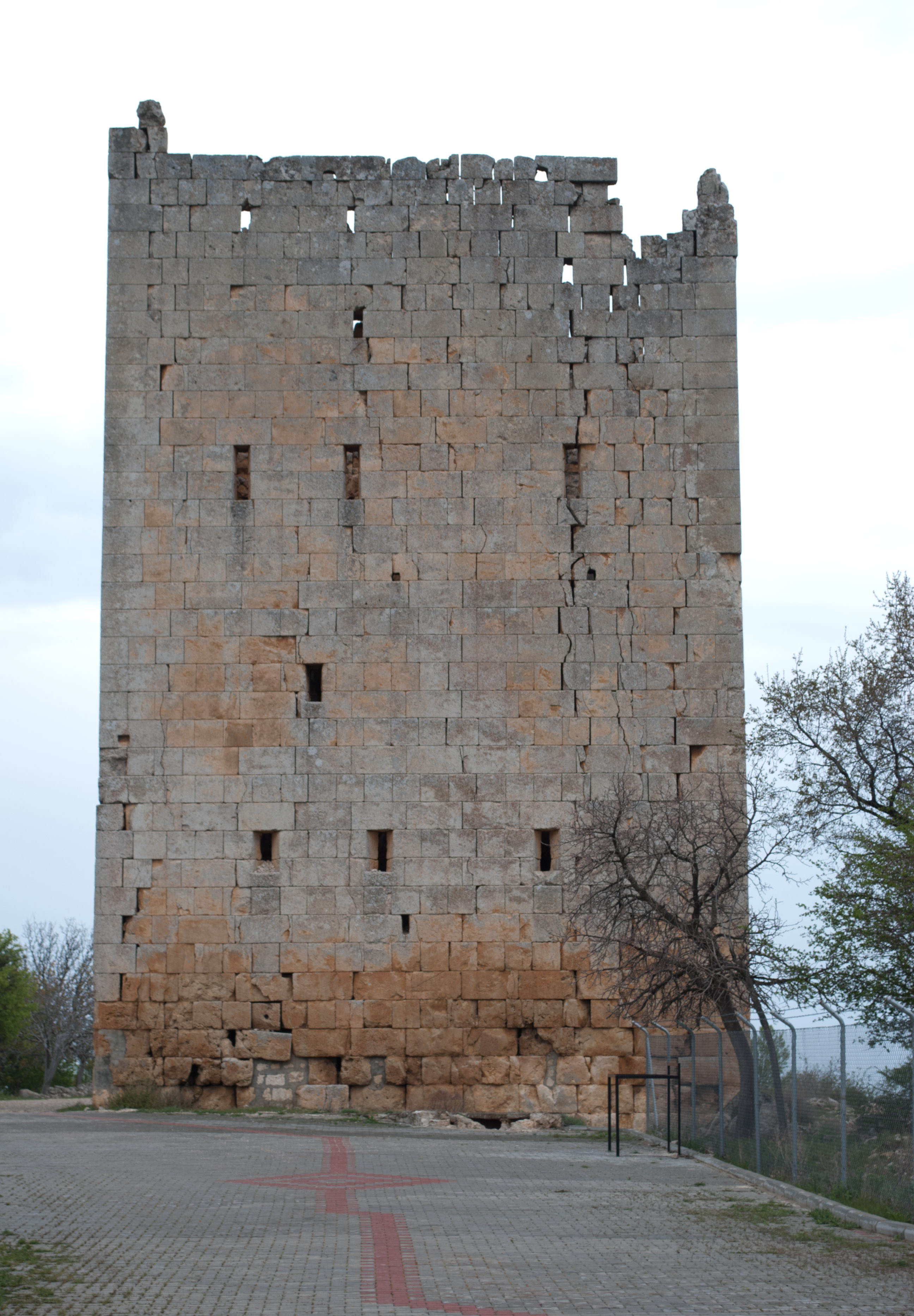 Ancient Greek Hellenistic period tower — at Olba-Diocaesarea, Cilicia (present day Turkey) Unknown